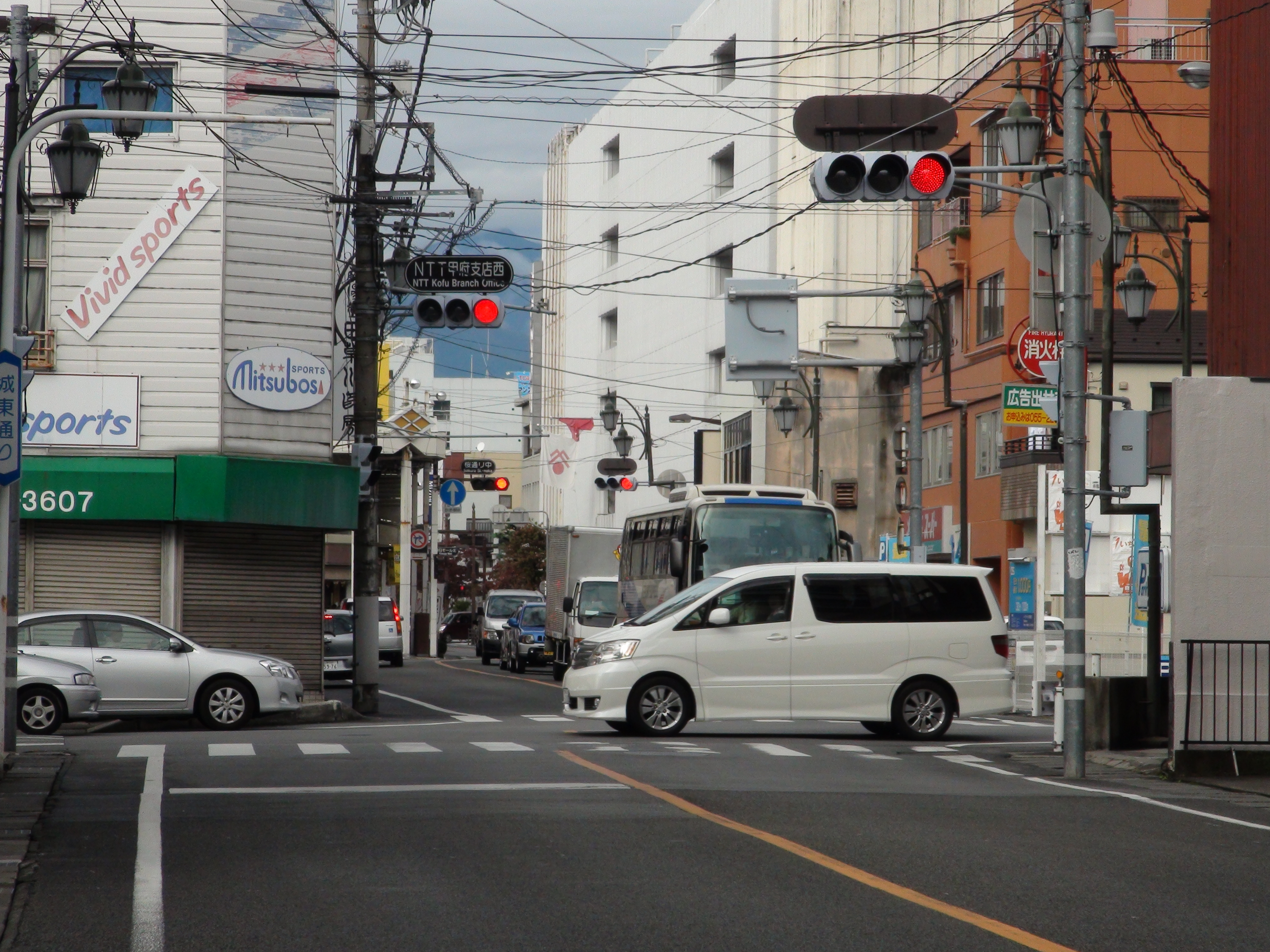 The road moved for Kofu-city defense intentionally